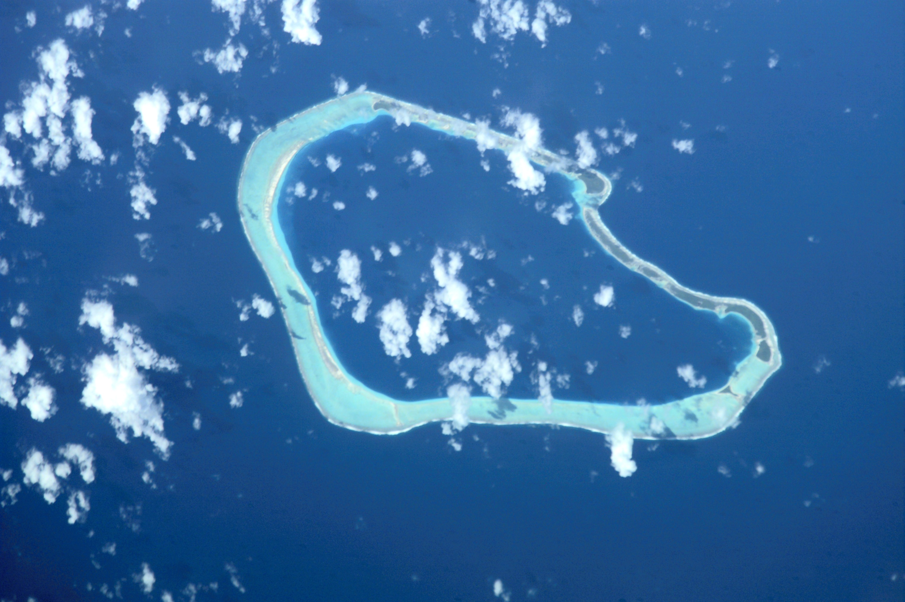 NASA Astronaut Image of Manuae (Society Islands, French Polynesia) in the Pacific Ocean